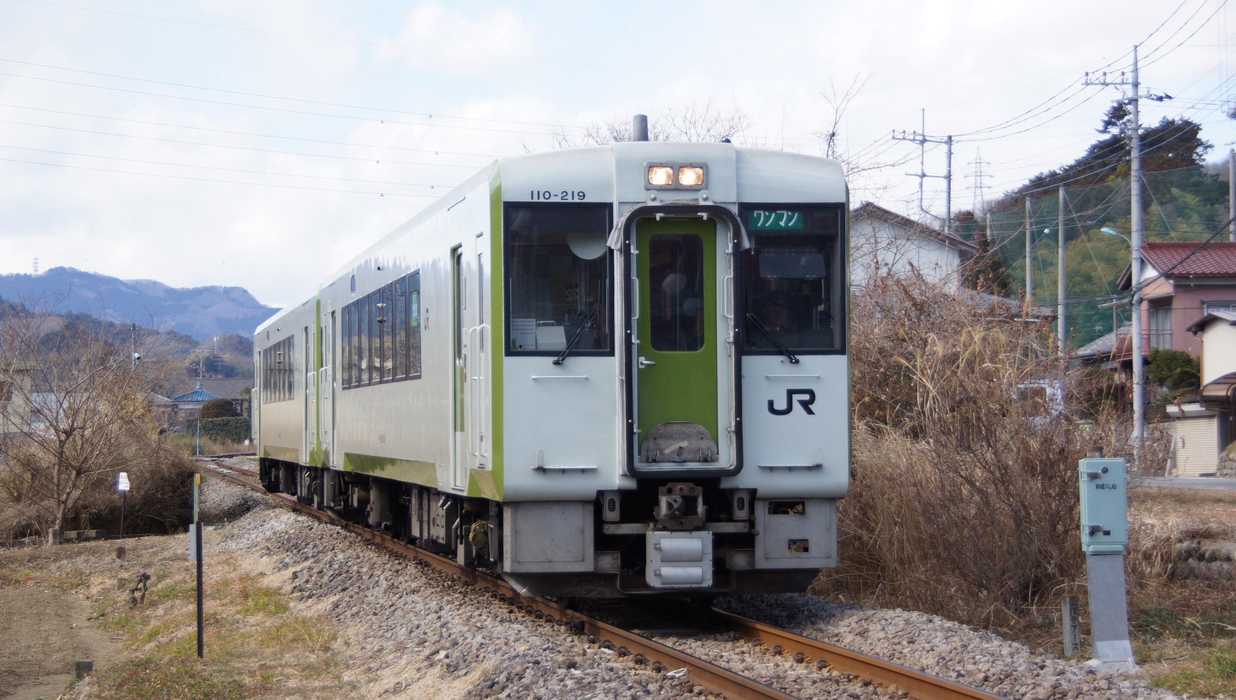 A pair of JR East KiHa 110 series DMUs led by KiHa 110-219 on a southbound Hachiko Line service just south of Takezawa Station in Saitama Prefecture, Japan